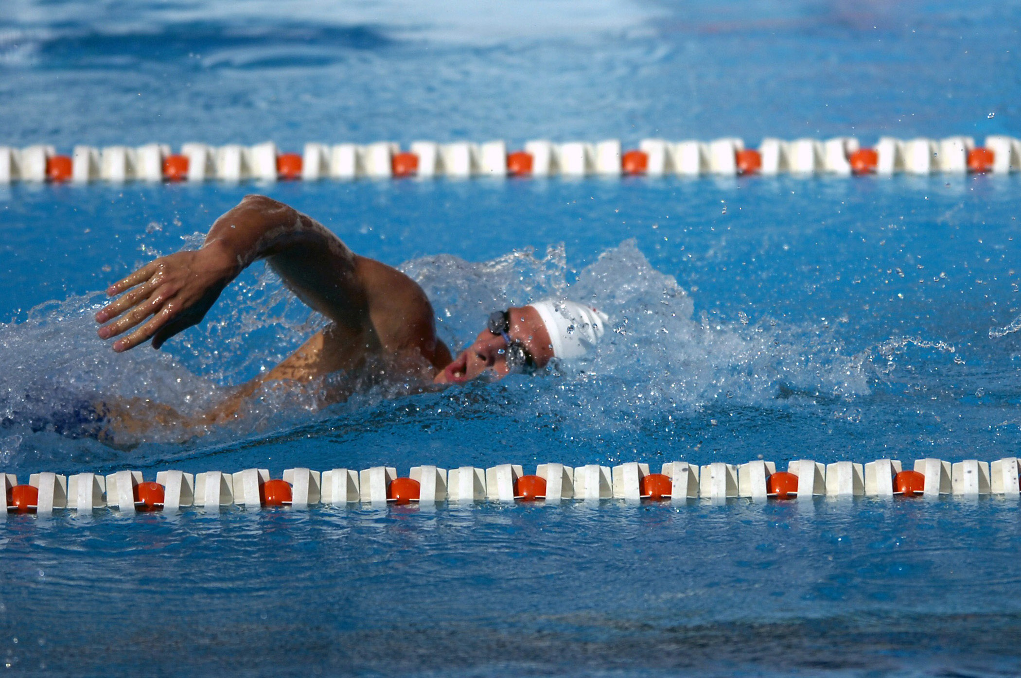 Piràmide d'aliments de l'Empordà